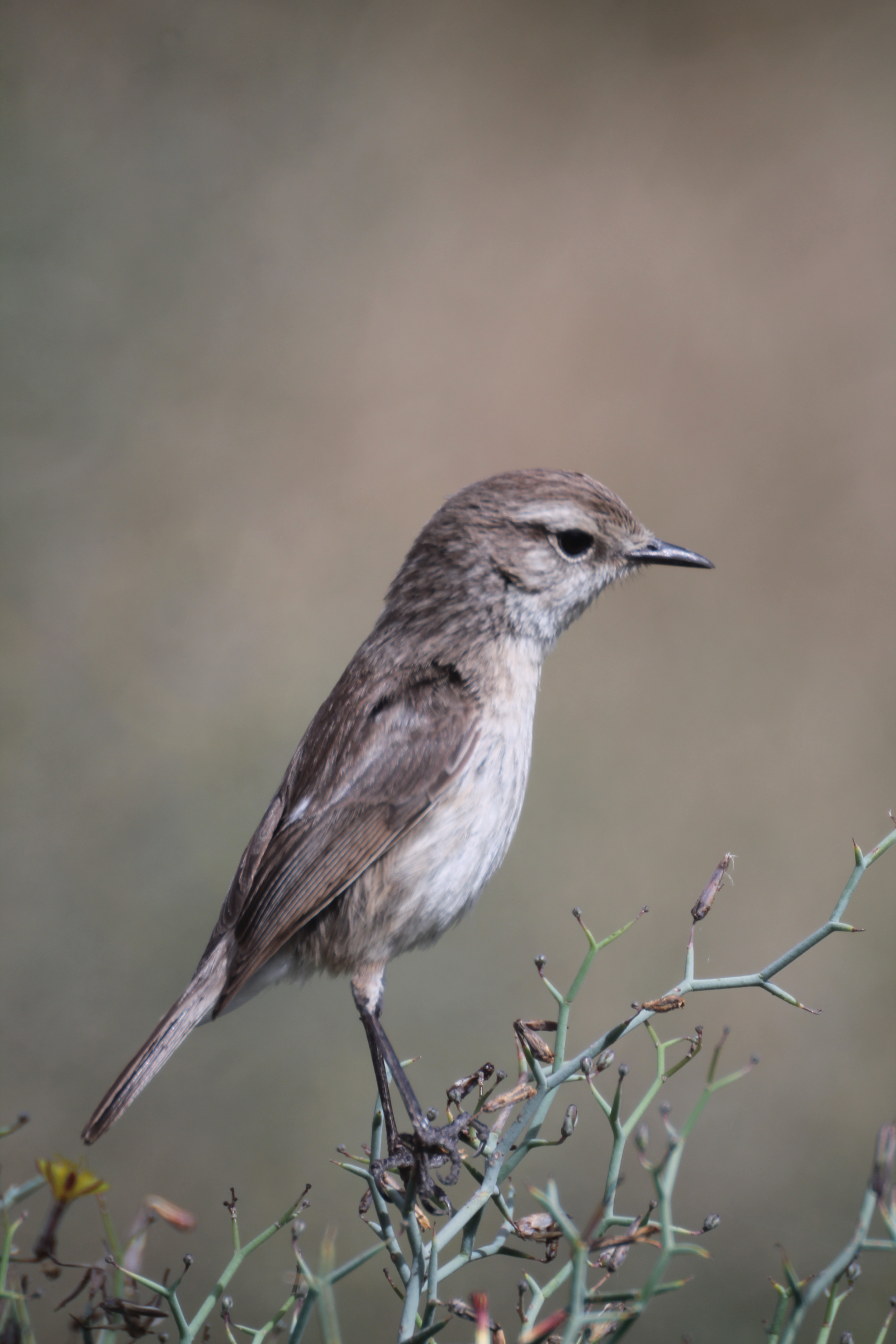 a feeding Canary Islands Stonechat (Female) (Saxicola dacotiae)